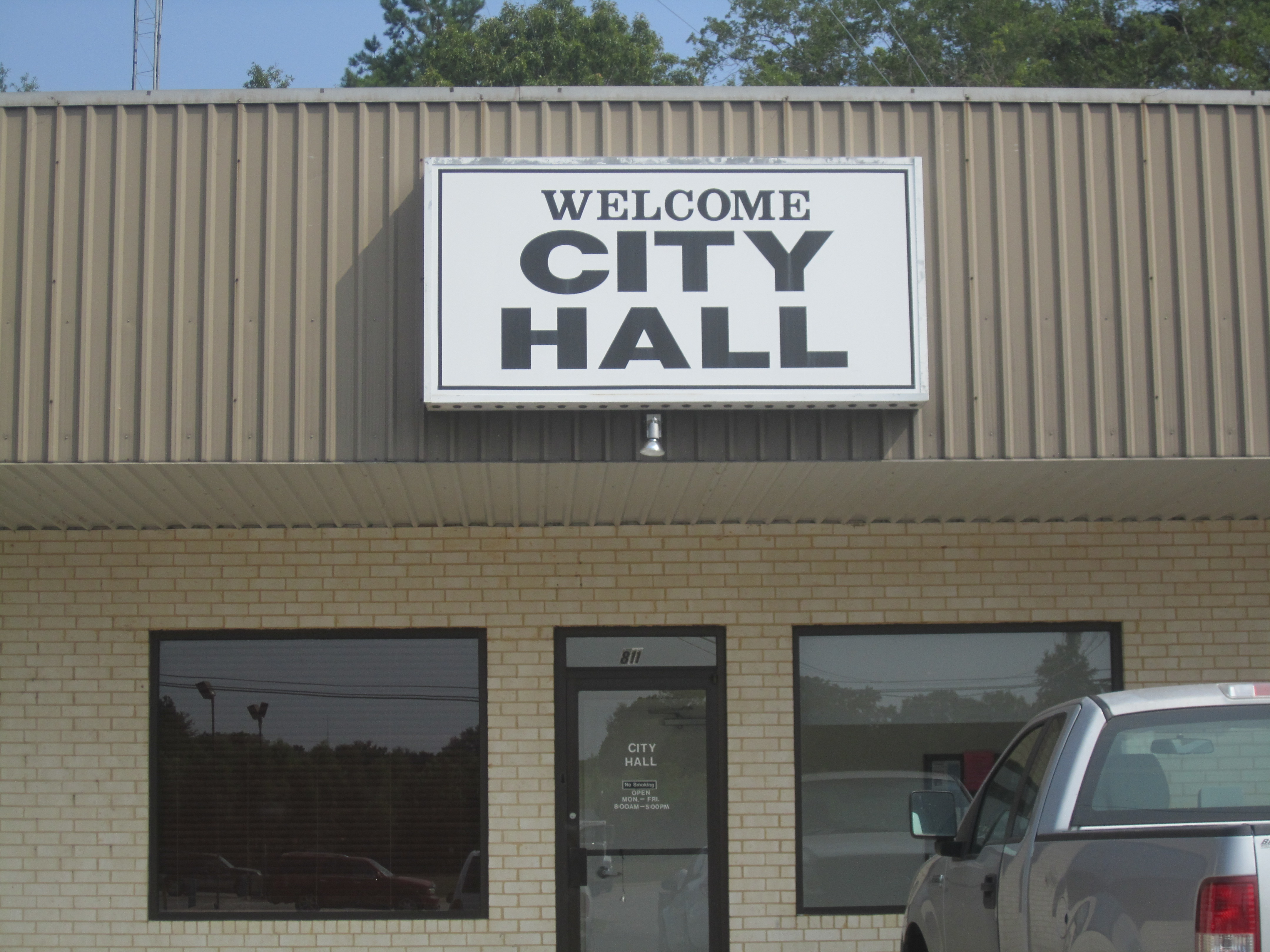 I took photo with Canon camera in Chandler, TX.